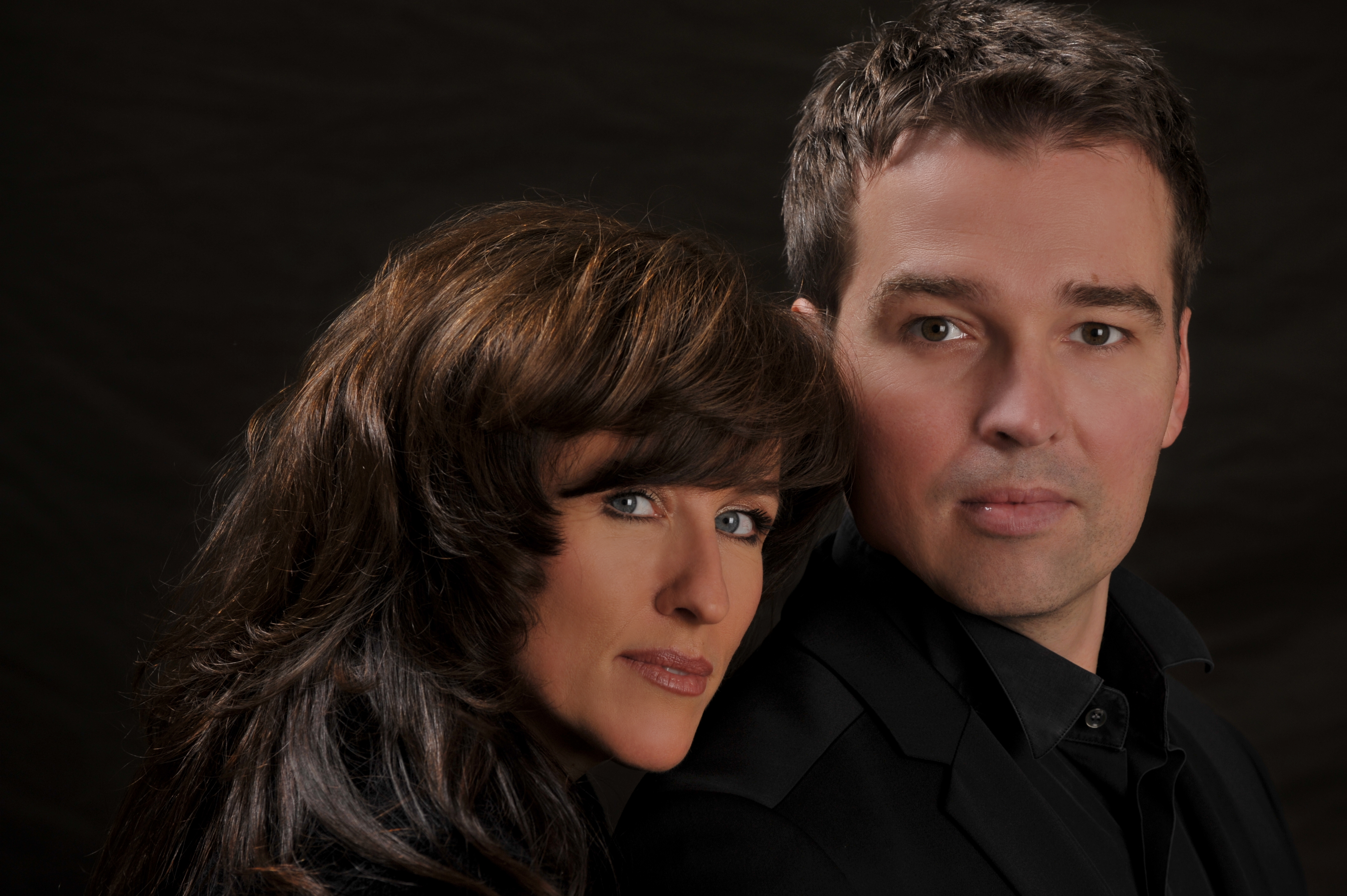 Janet Chvatal & Marc Gremm